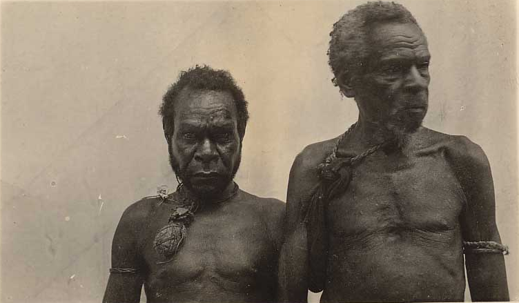 Papuan cannibals. Postcard, c 1910 (postally unused; uninscribed)